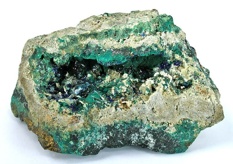 Clinoclase Locality: Mammoth Mine (Mammoth shaft), Tintic District, East Tintic Mts, Juab County, Utah, USA (Locality at ) Size: 10.1 x 7.6 x 4.8 cm. A treasure trove of mineral species is nestled in a protected vug, highlighted by a spherical ball of lustrous, blue-green clinoclase: a rare copper asenate/hydroxide. The best upright-standing cluster measures .7 cm across. Spears of splendent purple blue crystals, to .1 cm in length, may be azurite or perhaps even linarite. Tabular, translucent white crystals of baryte, to .7 cm across, are also a part of this pocket. A crust of rich green malachite forms the innermost portion of the vug. Ex. Lawrence Conklin, New York State Museum, and George F. Kunz Collections.